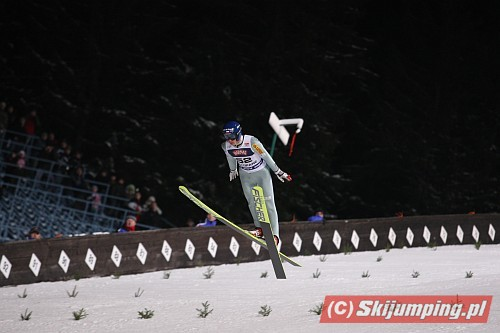 Kamil Stoch during sunday competiton - FIS Ski Jumping World Cup in Zakopane 2008